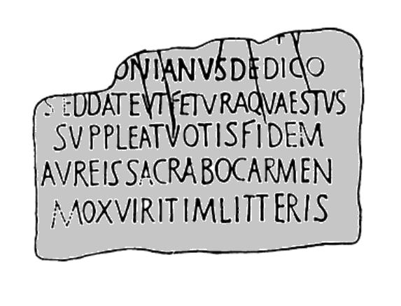 Dedication-slab Antonianus to the Mother Goddesses, Red sandstone, Find date 1790, in, or shortly before, 1790 at Bowness. Other events, later lost, but rediscovered in 1879. Now in Tullie House Museum.